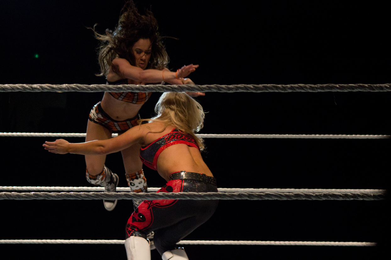 Cross Body